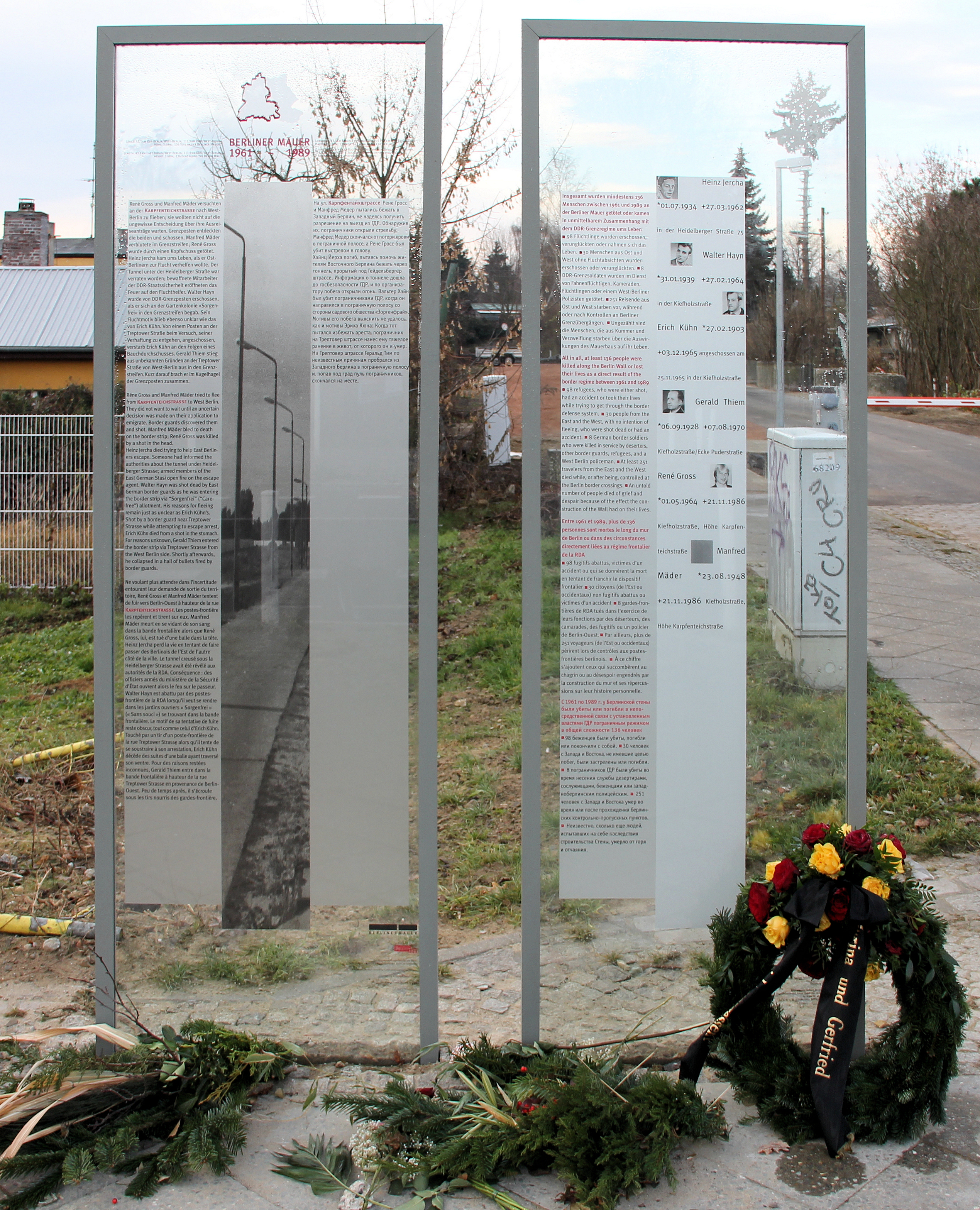 Memorial plaque, Heinz Jercha, Walter Hayn, Erich Kühn, Gerald Thiem, René Gross, Manfred Mäder, Kiefholzstraße 79, Berlin-Plänterwald, Germany